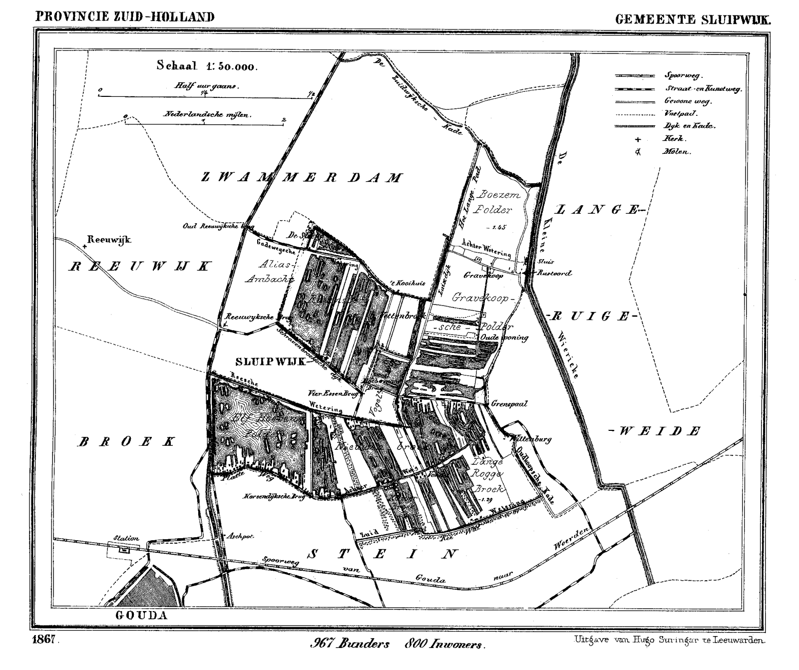 Historic map of Sluipwijk (now part of municipality Bodegraven/Reeuwijk), South Holland, the Netherlands